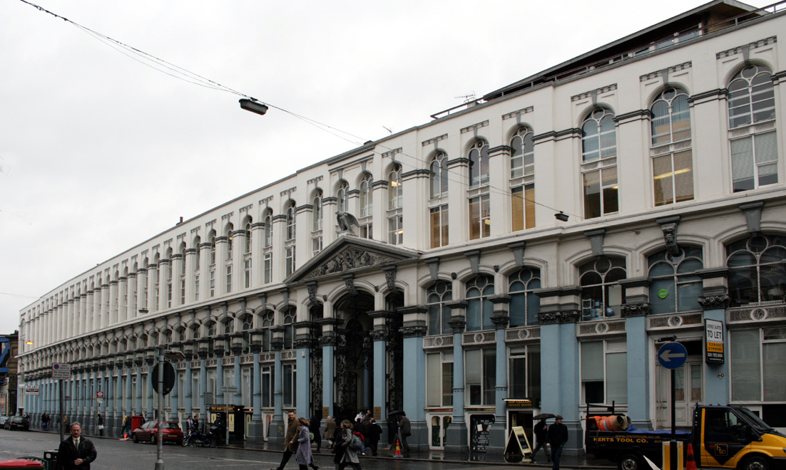 The Hop Exchange, Borough High Street, London.